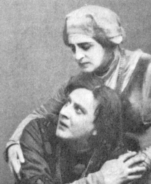 Russian actors Vasili Kachalov and Olga Knipper as Hamlet and Gertrude in Edward Gordon Craig and Constantin Stanislavski's production of Hamlet (1911)